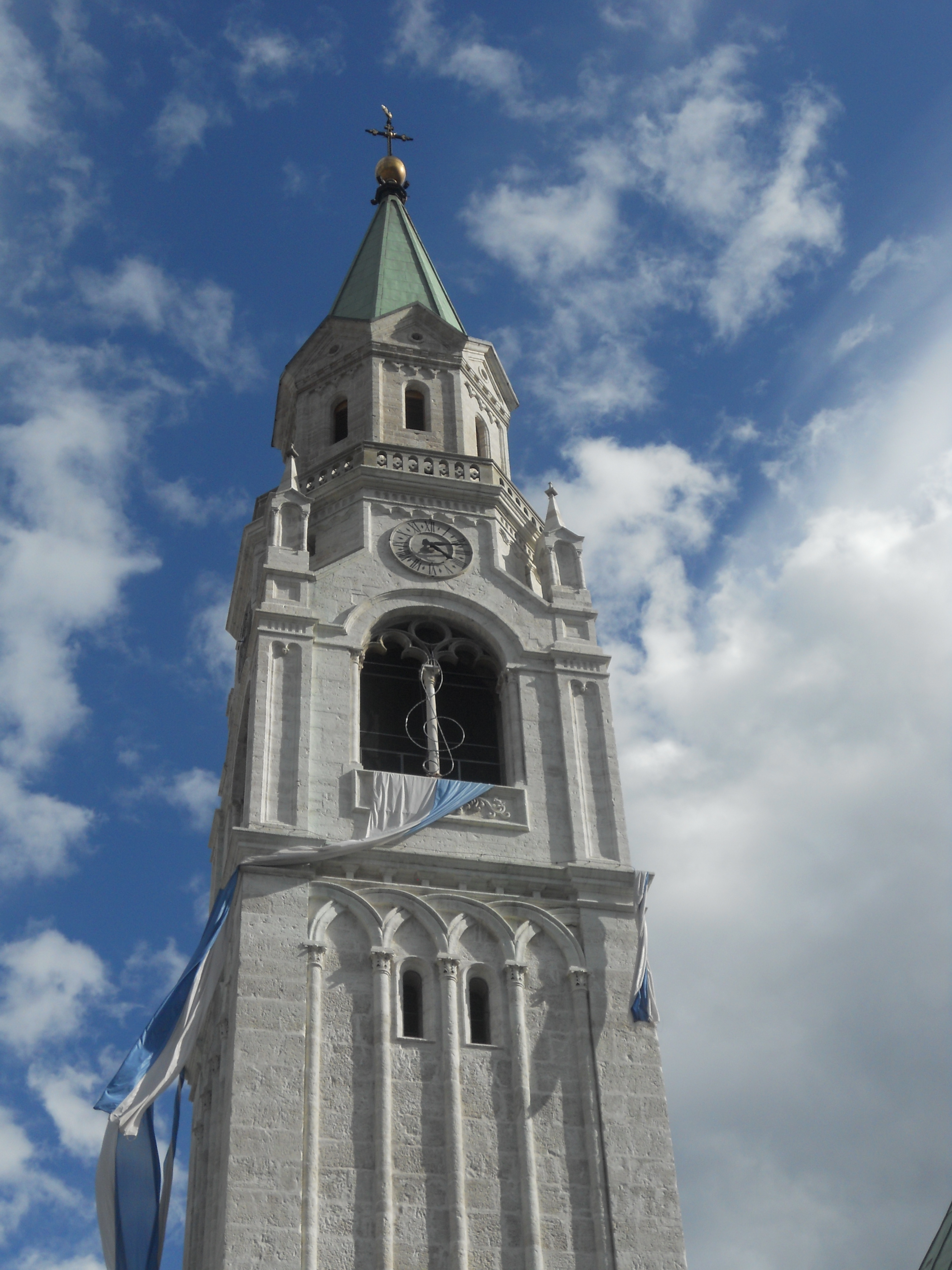 This is a photo of a monument which is part of cultural heritage of Italy.